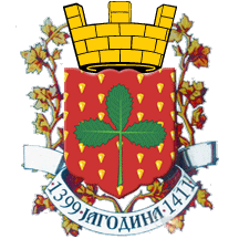 Coat of arms of Jagodina, Serbia)Blason de la ville de Jagodina, Serbie